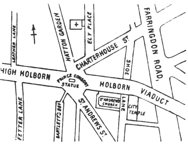 1888 plan of the area around Holborn Circus in London.